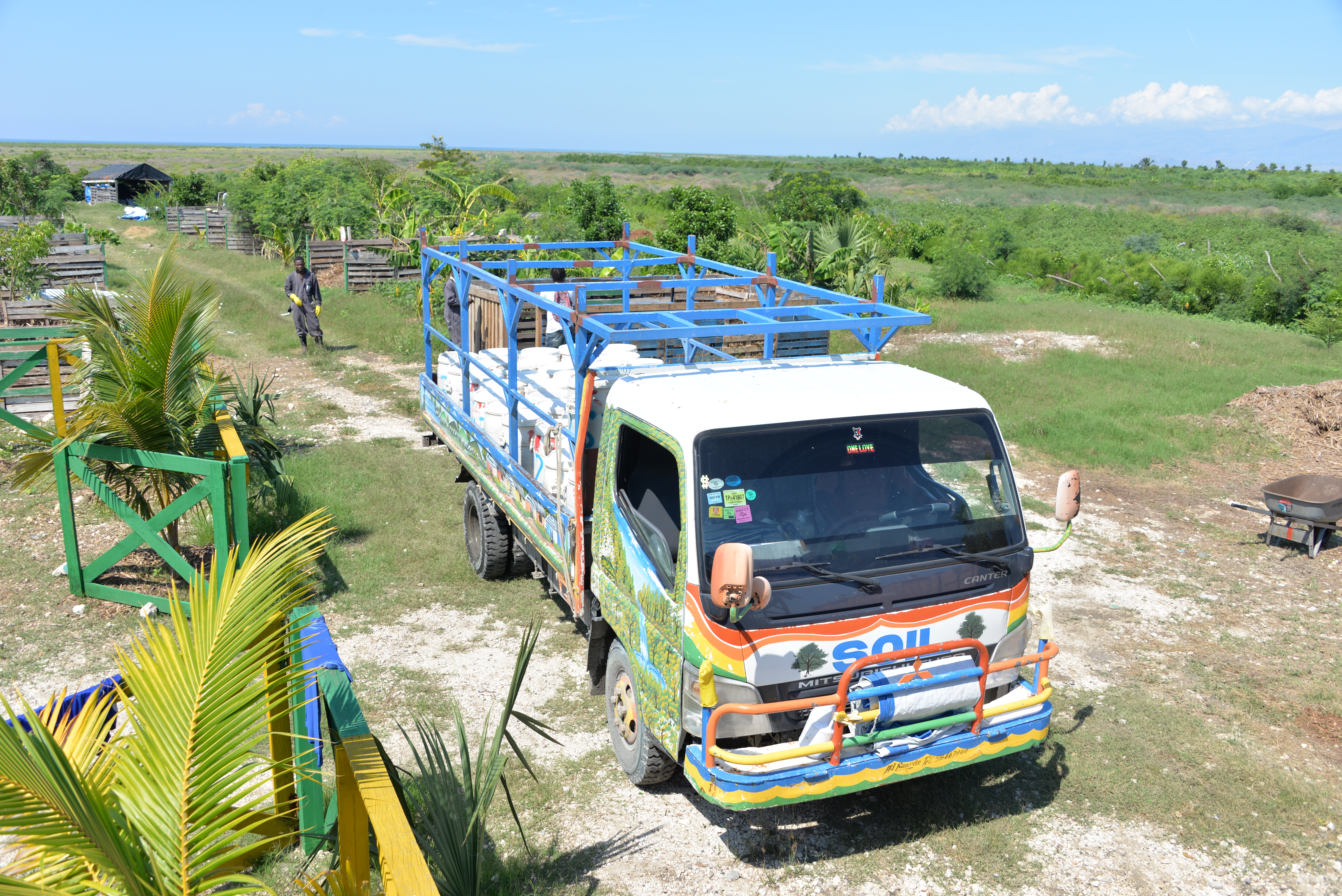 SOIL Poopmobile delivering buckets of waste to the SOIL composting facility in Port-au-Prince